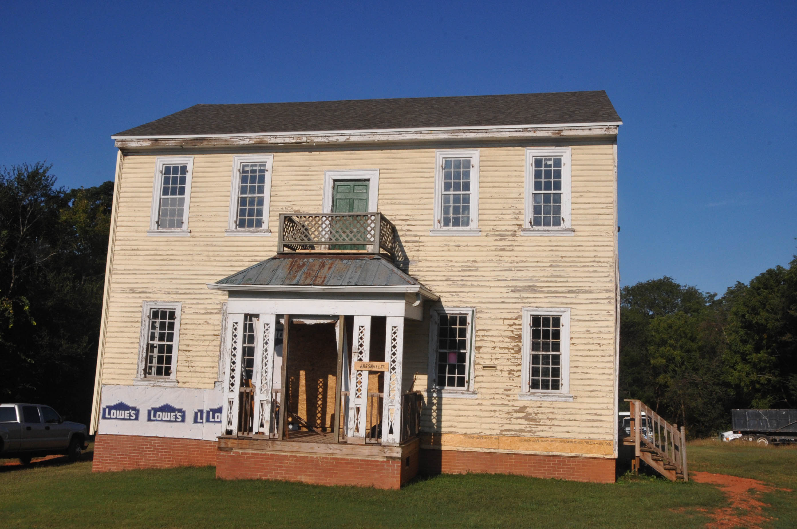 THIS IS ALSO KNOWN AS THE "YELLOW HOUSE"; OLDEST OR PERHAPS THE SECOND OLDEST HOUSE IN PITTSBORO BUILT IN THE LATE 1700’S